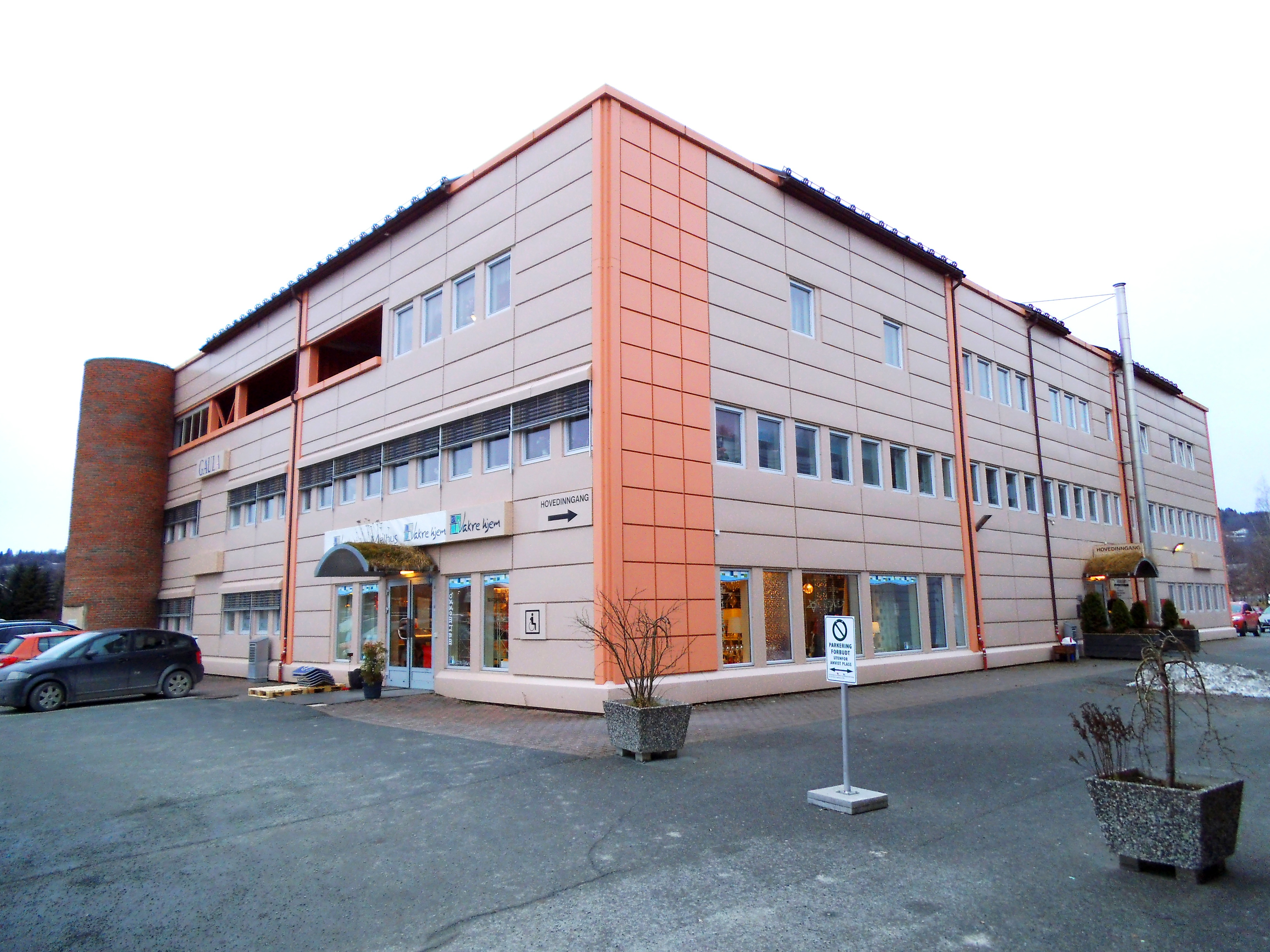 Melhuset is an office building with shops and government offices. The building is located in Melhus. Built around 2000.